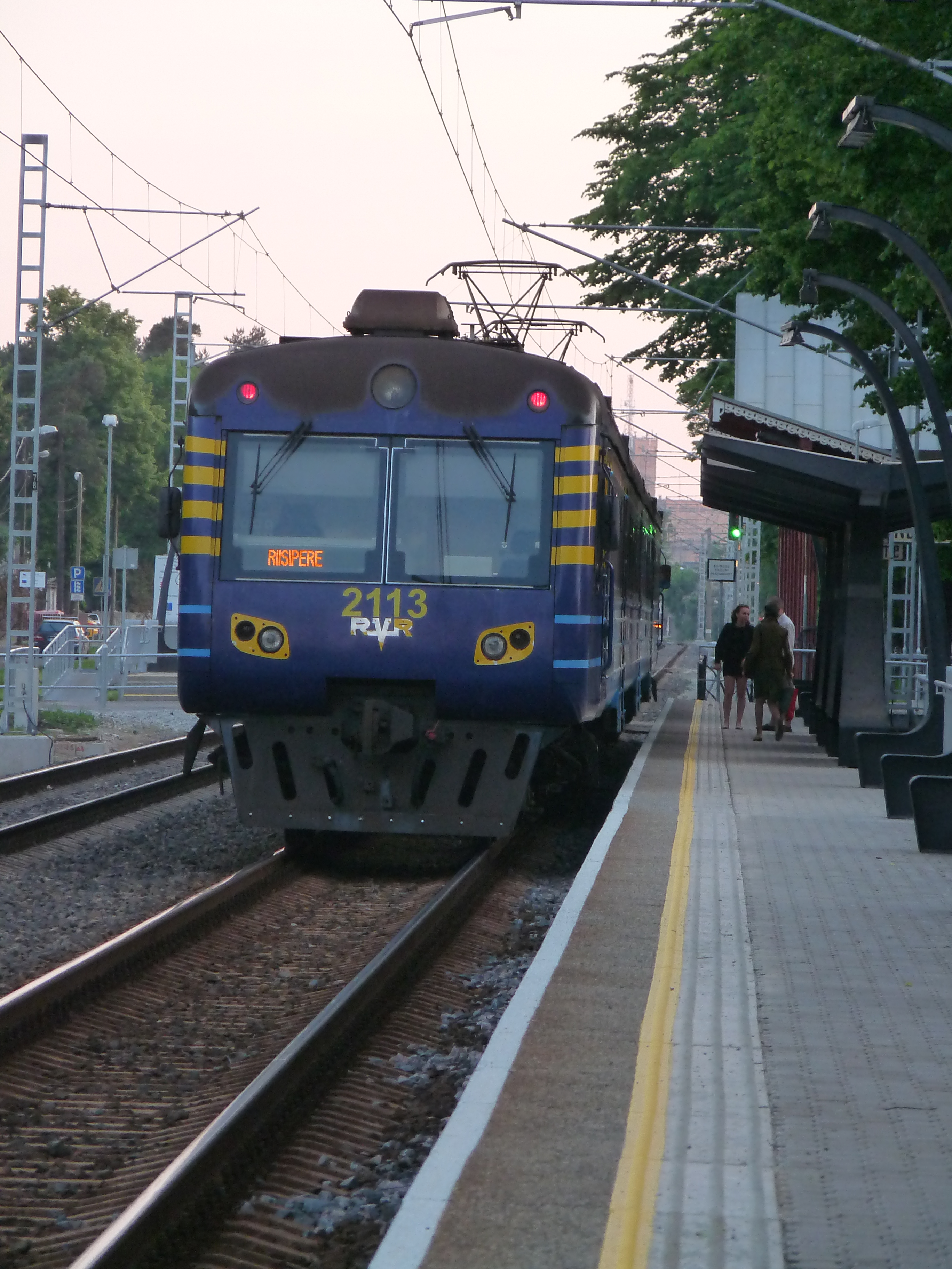 Electric train in Tallinn, Estonia